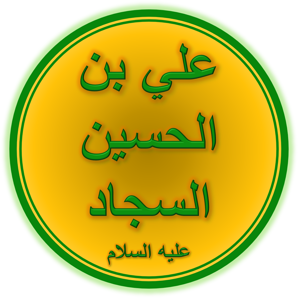 Arabic text with the name and a title of Ali ibn Husayn